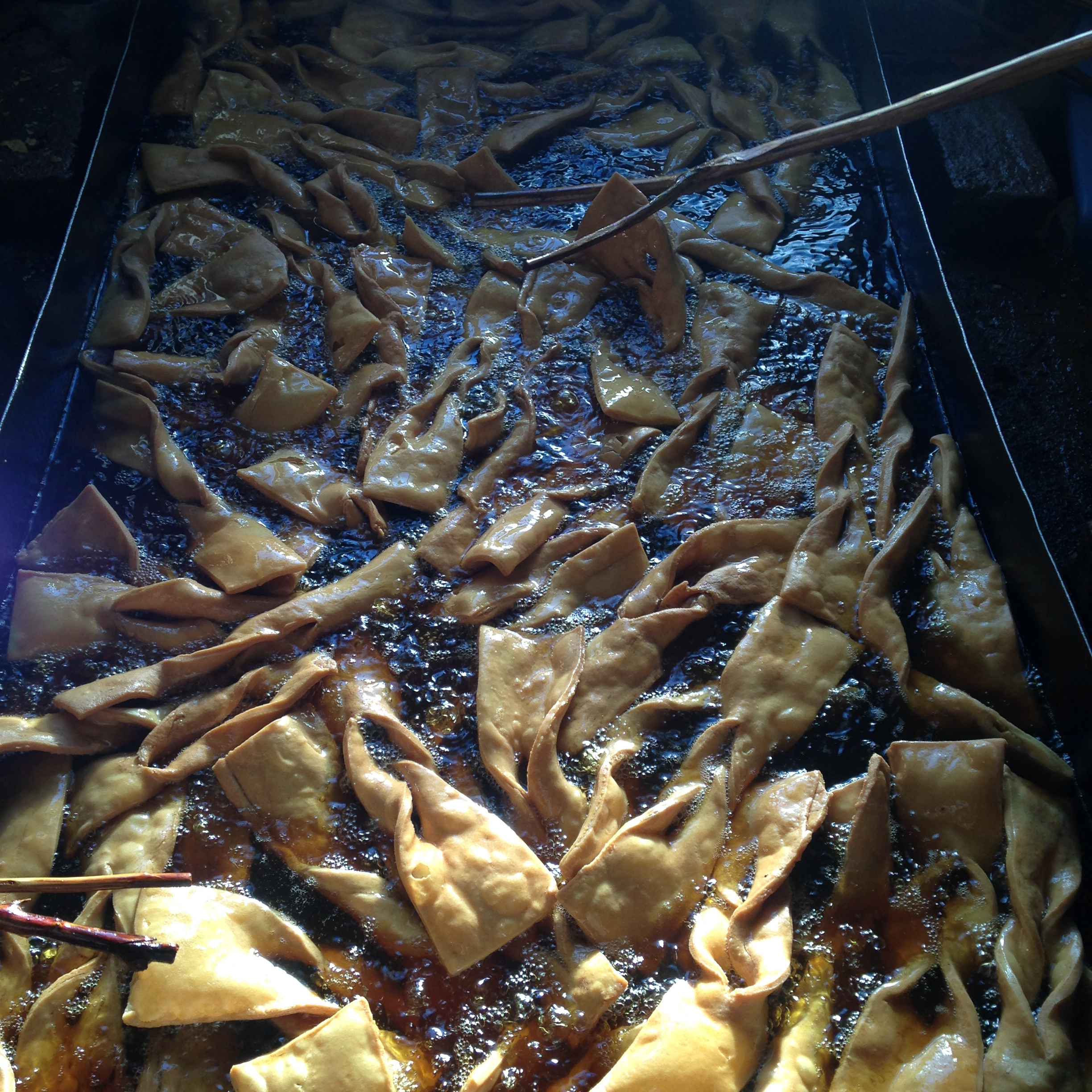 traditional Tibetan cuisine